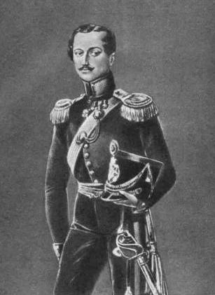 Prince Alexander Chavchavadze, by unknown artist. 1820s.